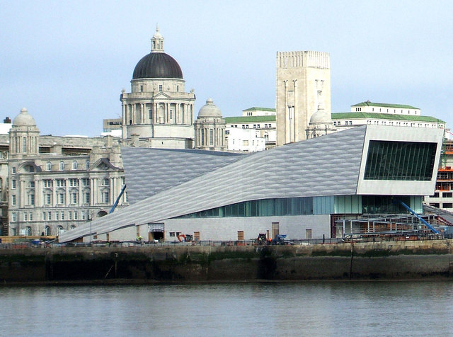 The new Liverpool museum. This view of the new Liverpool museum was taken from the ferry. The copper dome of the Port of Liverpool building is in the background.